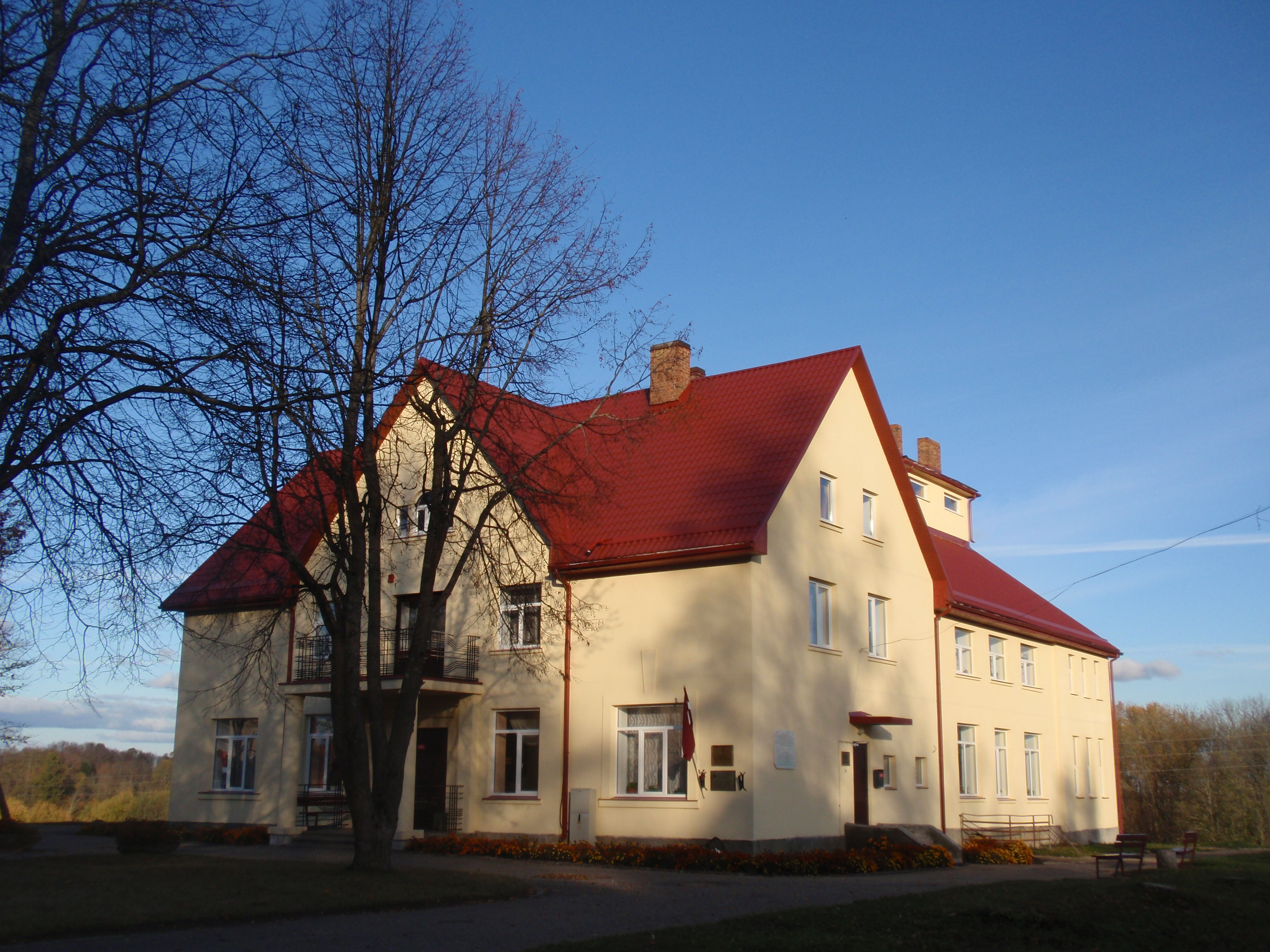 Šķaune parish administration building